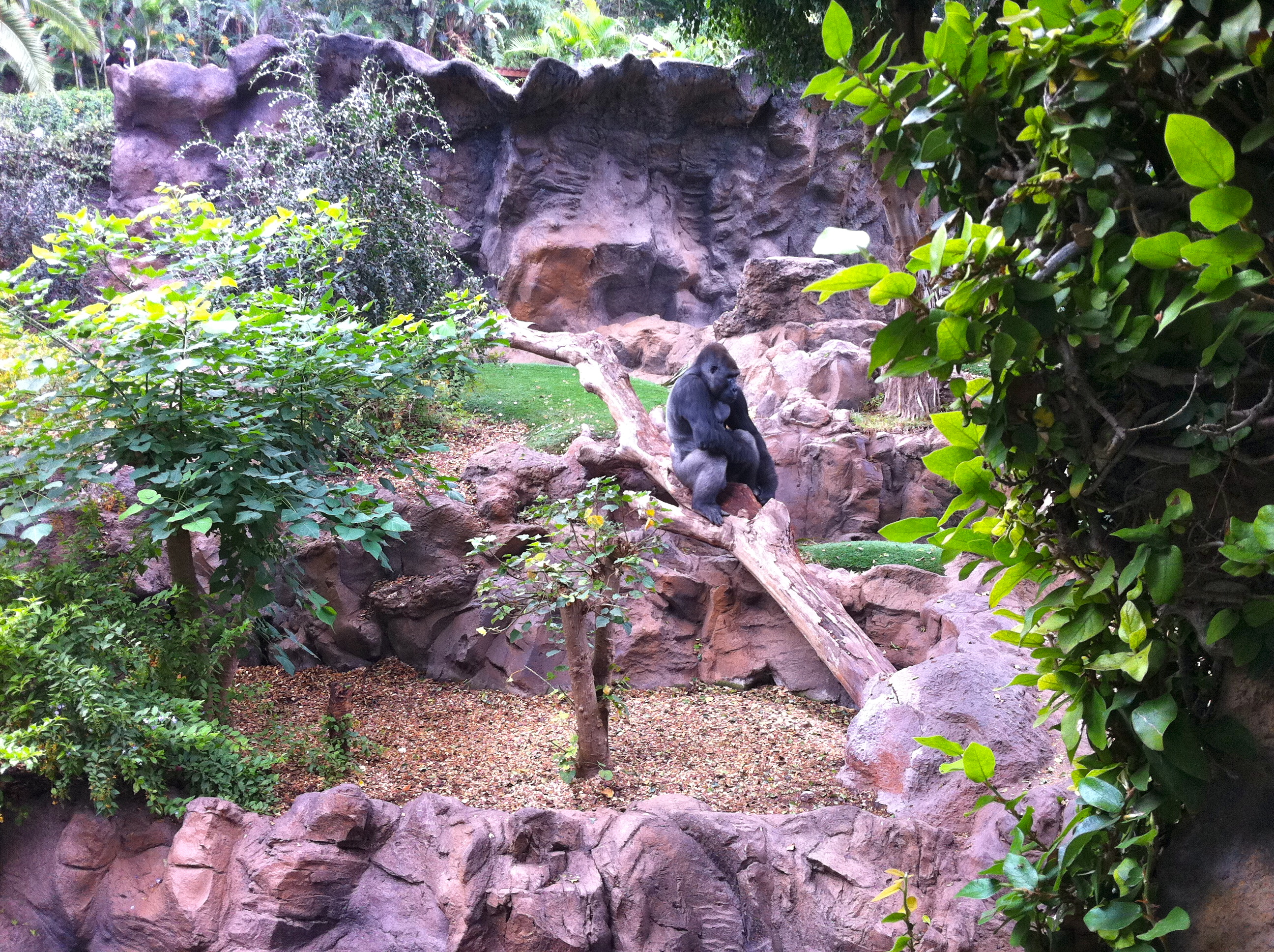 Gorilla in Loro ParqueLietuvių: Gorilų voljeras Loro prake